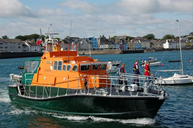 The "Samuel J" at Donaghadee. The "Samuel J" is a former Arun class lifeboat "Sir William Arnold". She was built in 1973 and was on station at St Peter Port from 1973 to 1997. There are no Aruns left in service. Many have been sold abroad for further use as lifeboats - notably to Iceland and China.